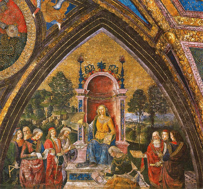 The Arts of the Quadrivium; Geometry. Fresco. Borgia Apartments. Hall of the Liberal Arts. The Vatican